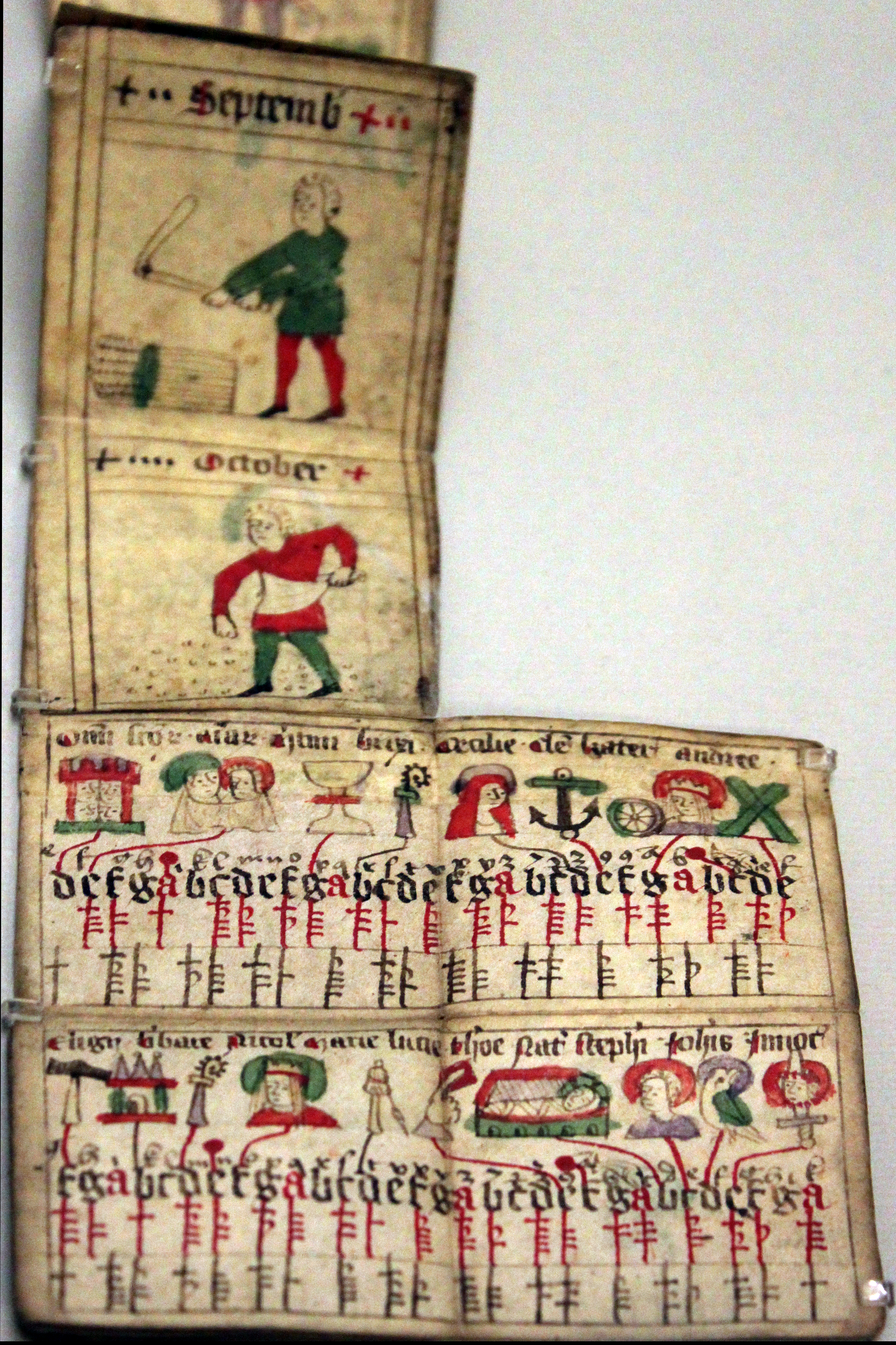 Pocket calendar for the year 1397